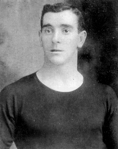 Footballer Tommy Boyle (1888-1940). Image found on The Football Network and in the Barnsley Chronicle. Both give no details of the author's and photographer's identity, so it must be presumed to be unknown. This, and the age of the image mean it is in the PD per the template shown.